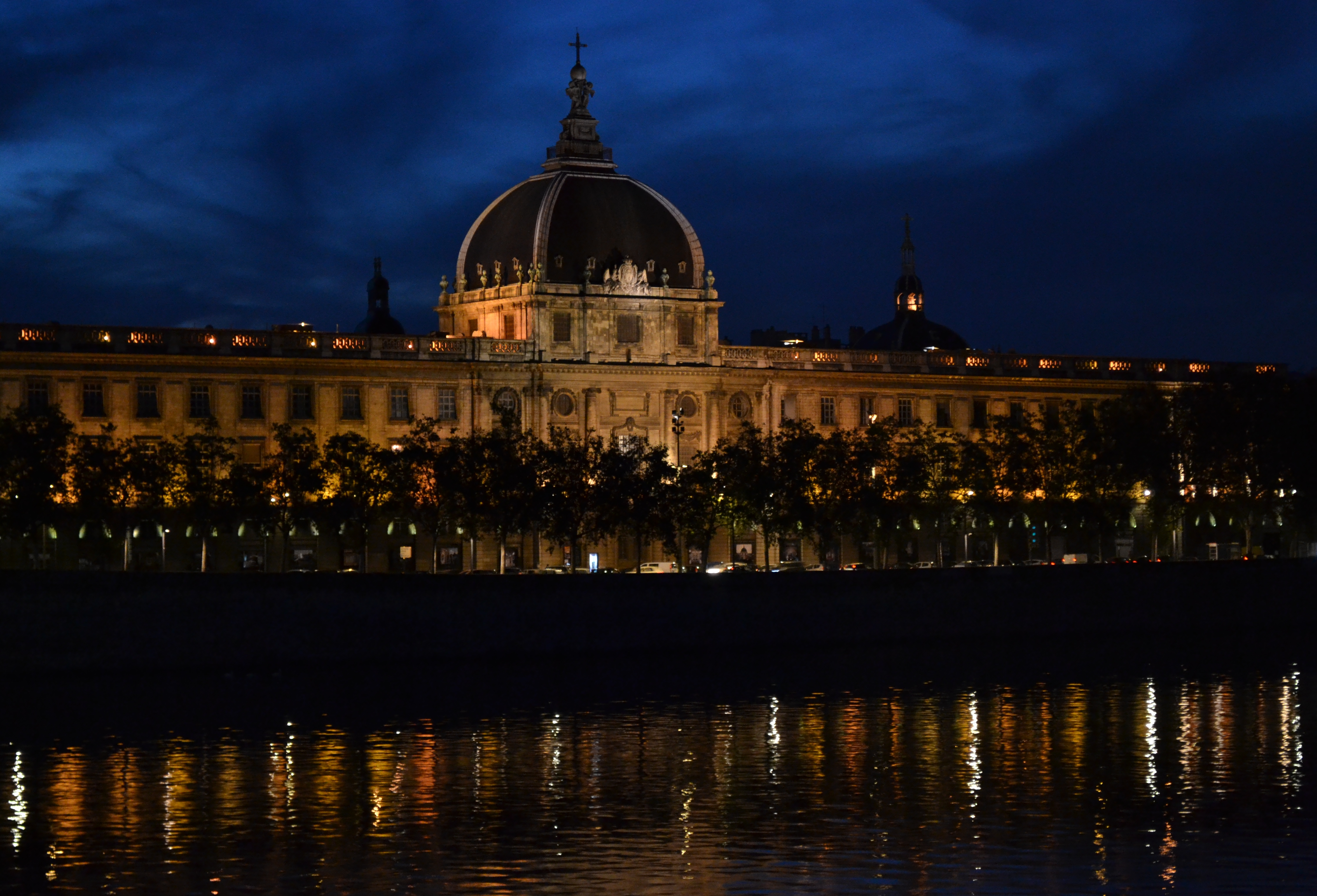 Hôtel-Dieu of Lyon, presenting the cool waters of the river Rhône with its glimmering shadow